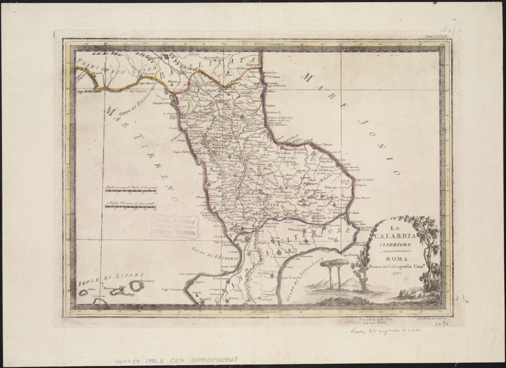 Zoom into this map at . Author: Cassini, Gio. Ma. (Giovanni Maria) Publisher: Calcografia camerale (Rome, Italy) Date: 1790 Location: Calabria (Italy) Dimension: 30x44cm Scale: ca. 1:540,000 Call Number: G6713.C3 1790.2 .C37x